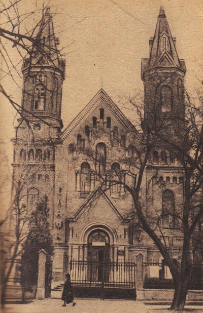 The Catholic Church, Mykolaiv